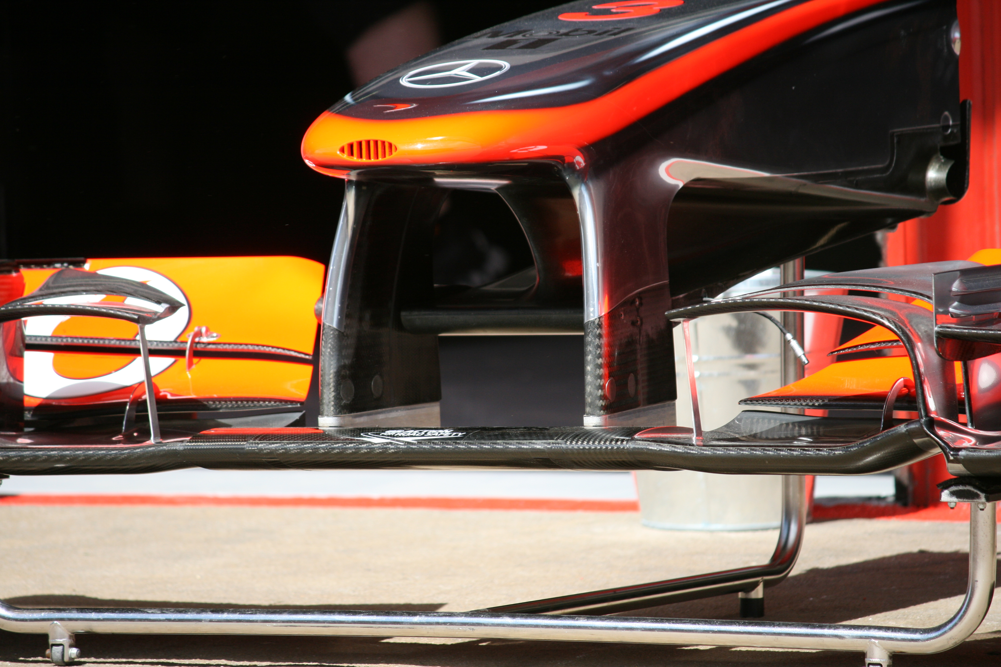 Front wing of McLaren MP4-26, version for 2011 Spanish Grand Prix